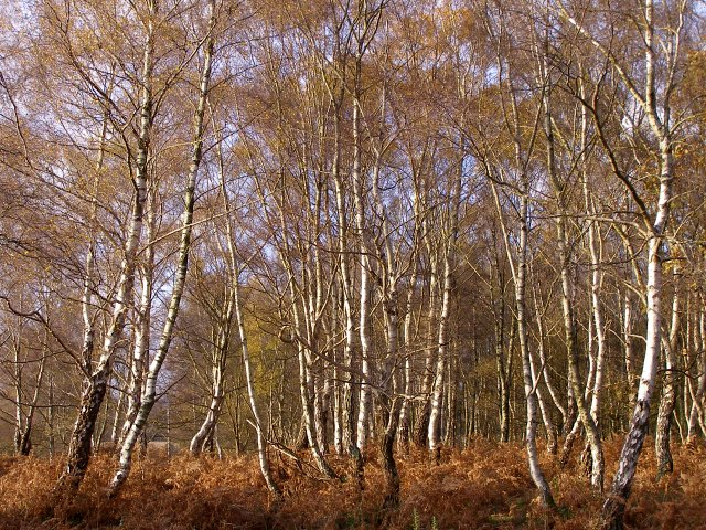 Autumnal silver birch on the edge of Matley Wood, New Forest Silver birch is a pioneer species, commonly found colonising the fringes of open woodland in the New Forest. These trees are on the western edge of Matley Wood, next to the campsite.